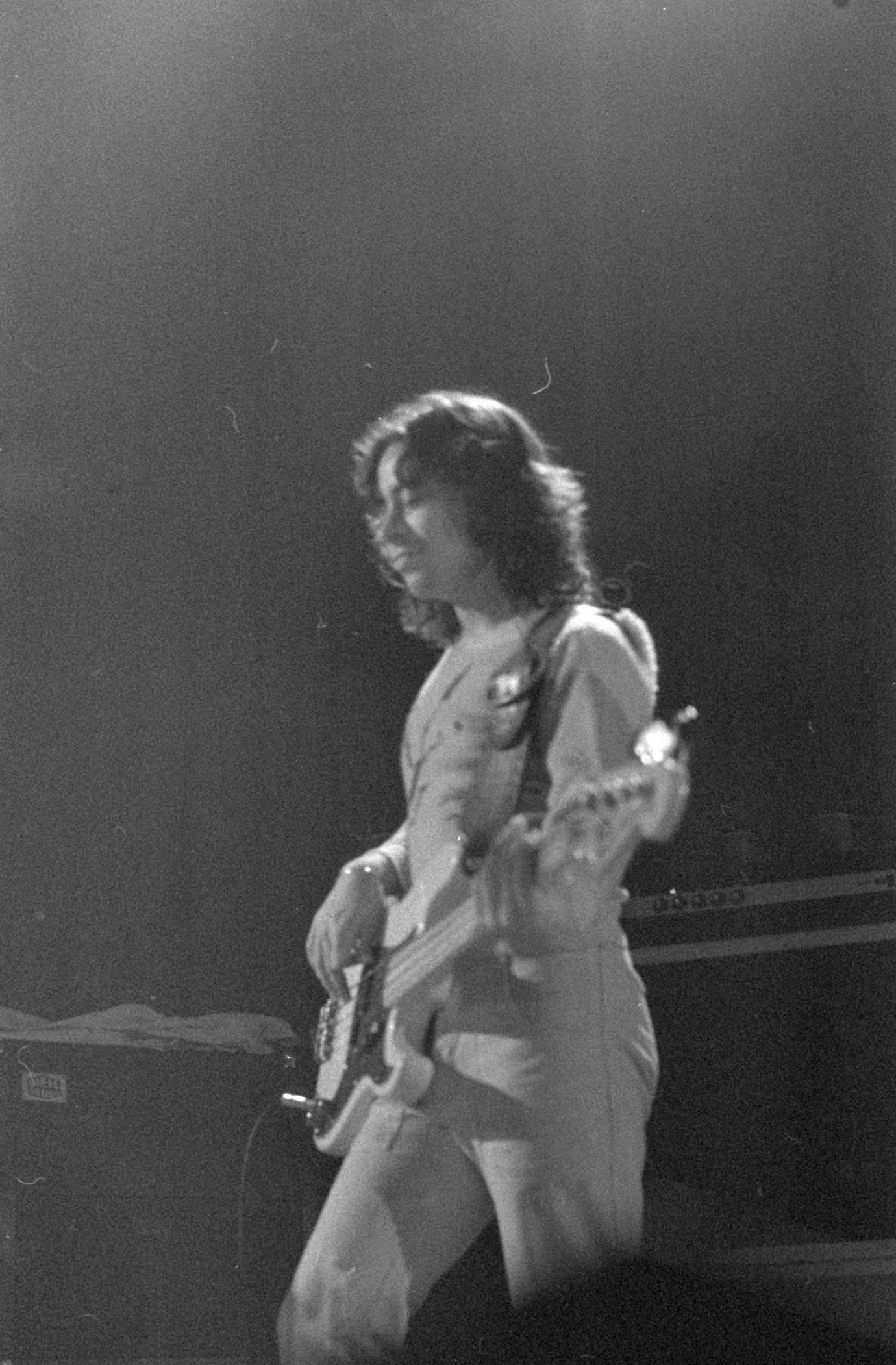 Joe Walsh Band -Kenny Passarelli on Bass guitar